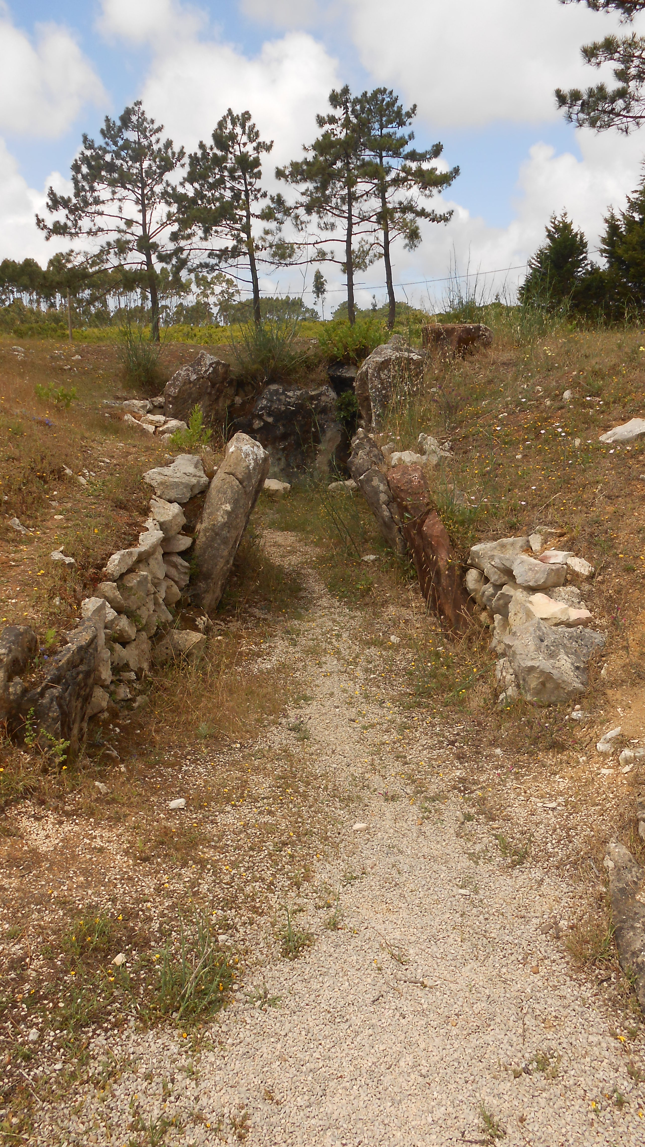 The Dólmen das Carniçosas in the Serra das Alhadas, located in the Figueira da Foz municipality.